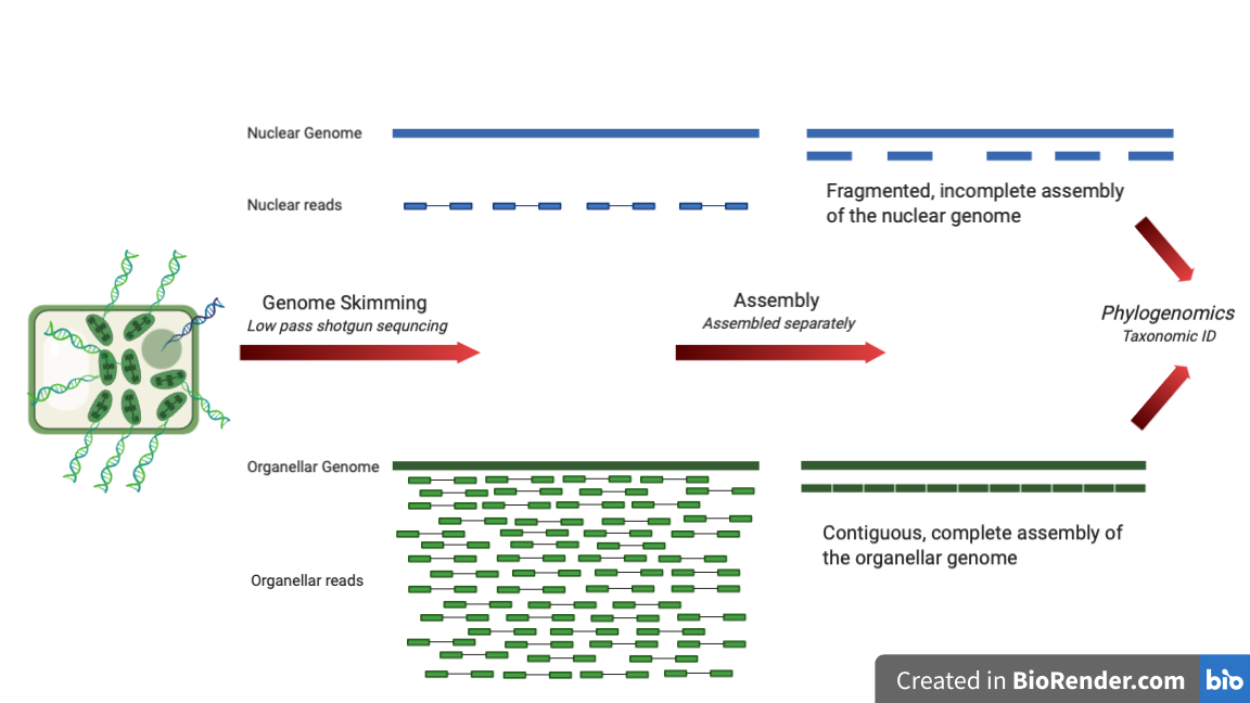 In a eukaryotic cell, the organellar DNA is present in much higher copies compared to the nuclear DNA. A shallow, low pass sequencing attempt will yield many more reads for organellar DNA than nuclear DNA, allowing for easier assembly, and thereby resulting in a more complete, and contiguous genome assembly.